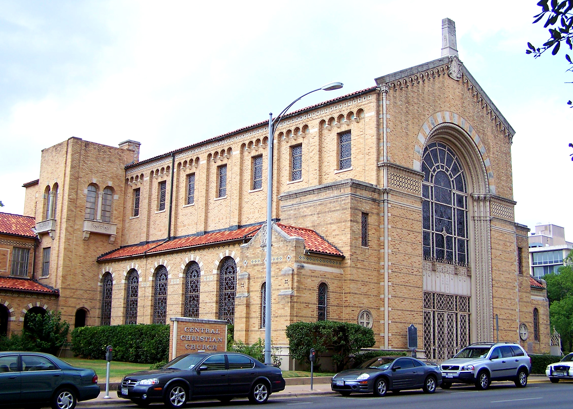 Austin's Central Christian Church, completed in 1929 and located at 1110 Guadalupe, Austin, Texas, United States. The building was listed in the National Register of Historic Places on July 16, 1992.